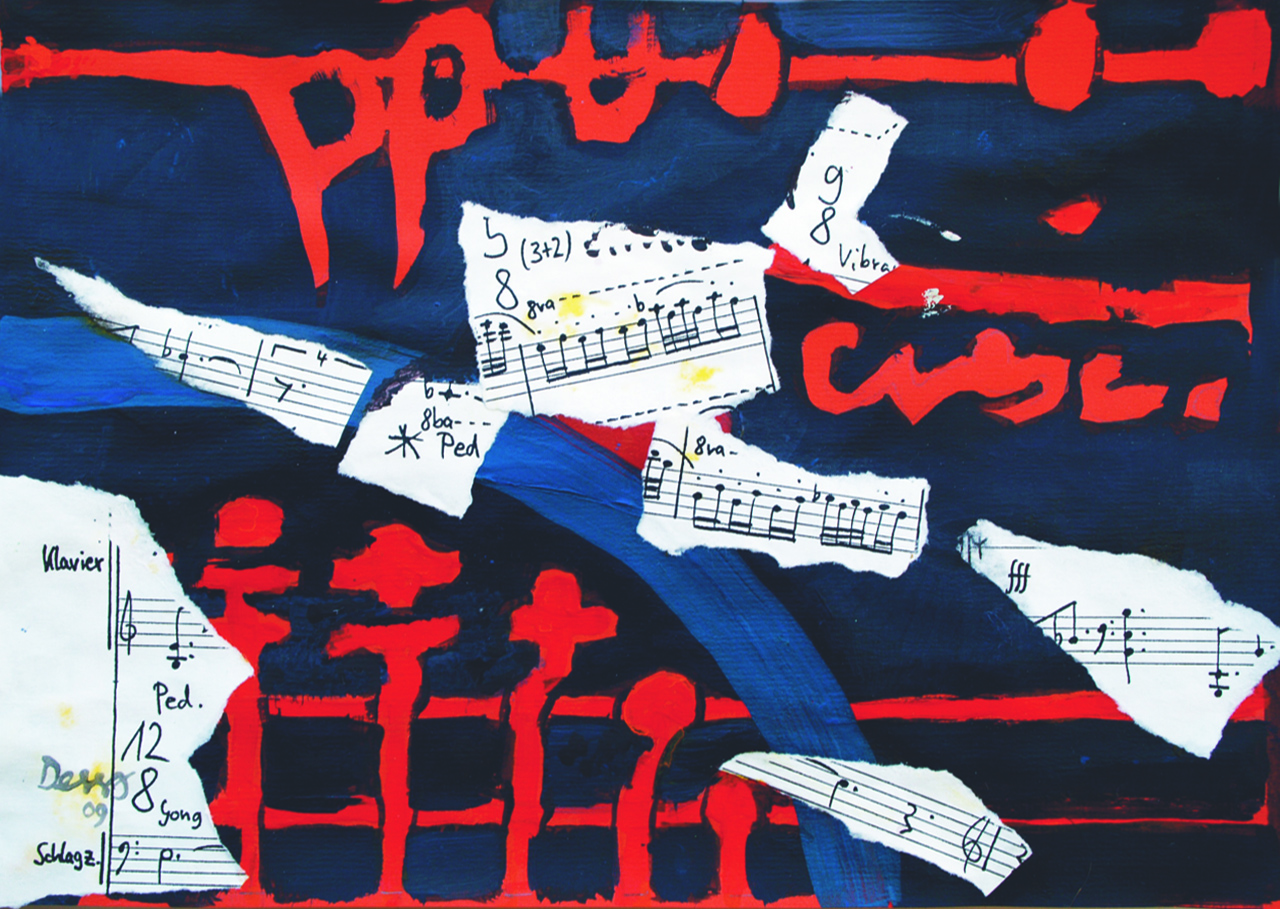 from the series «Composition - Detlev Glanert». 21 x 30 cm, acrylic & collage technique on canvas.